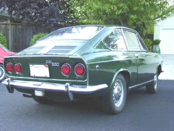 '69 Fiat 850 Coupe, example of Kammback